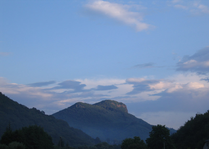 Jastrabská skala, Kremnické vrchy, Slovakia